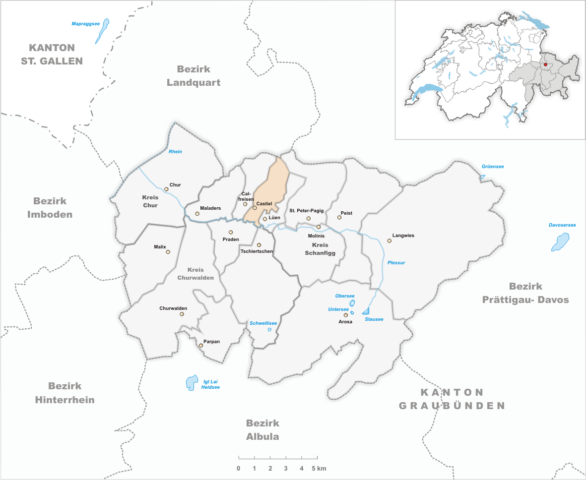 Municipality Castiel